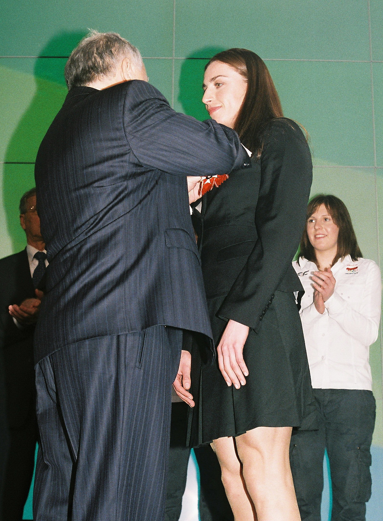 Justyna Kowalczyk & Lech Kaczyński (PKOL) (2010)